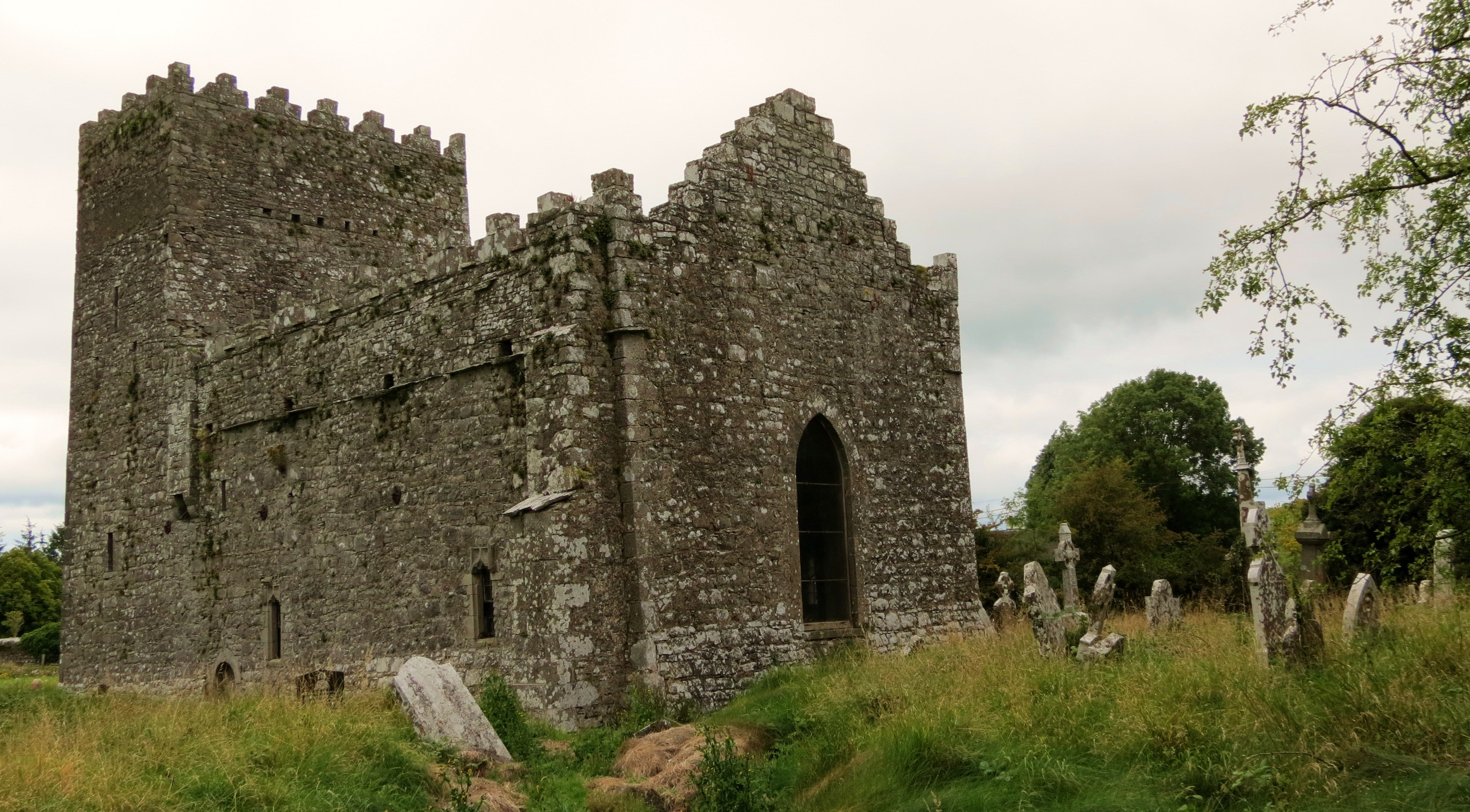 Taghmon Church-St Munnas Church